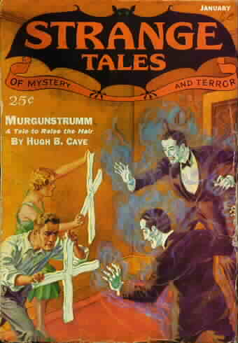 Cover of the pulp magazine Strange Tales of Mystery and Terror (January 1933) featuring "Murgunstrumm" by Hugh B. Cave.